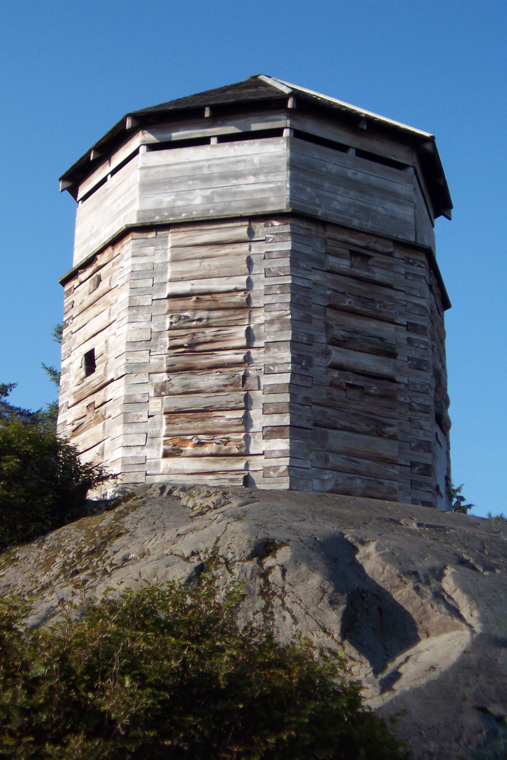 A replica of Russian Block House #1 (one of three watchtowers that guarded the stockade walls) as constructed by the National Park Service in 1962. Photograph by Robert A. Estremo, copyright 2005. category:Sitka, Alaska